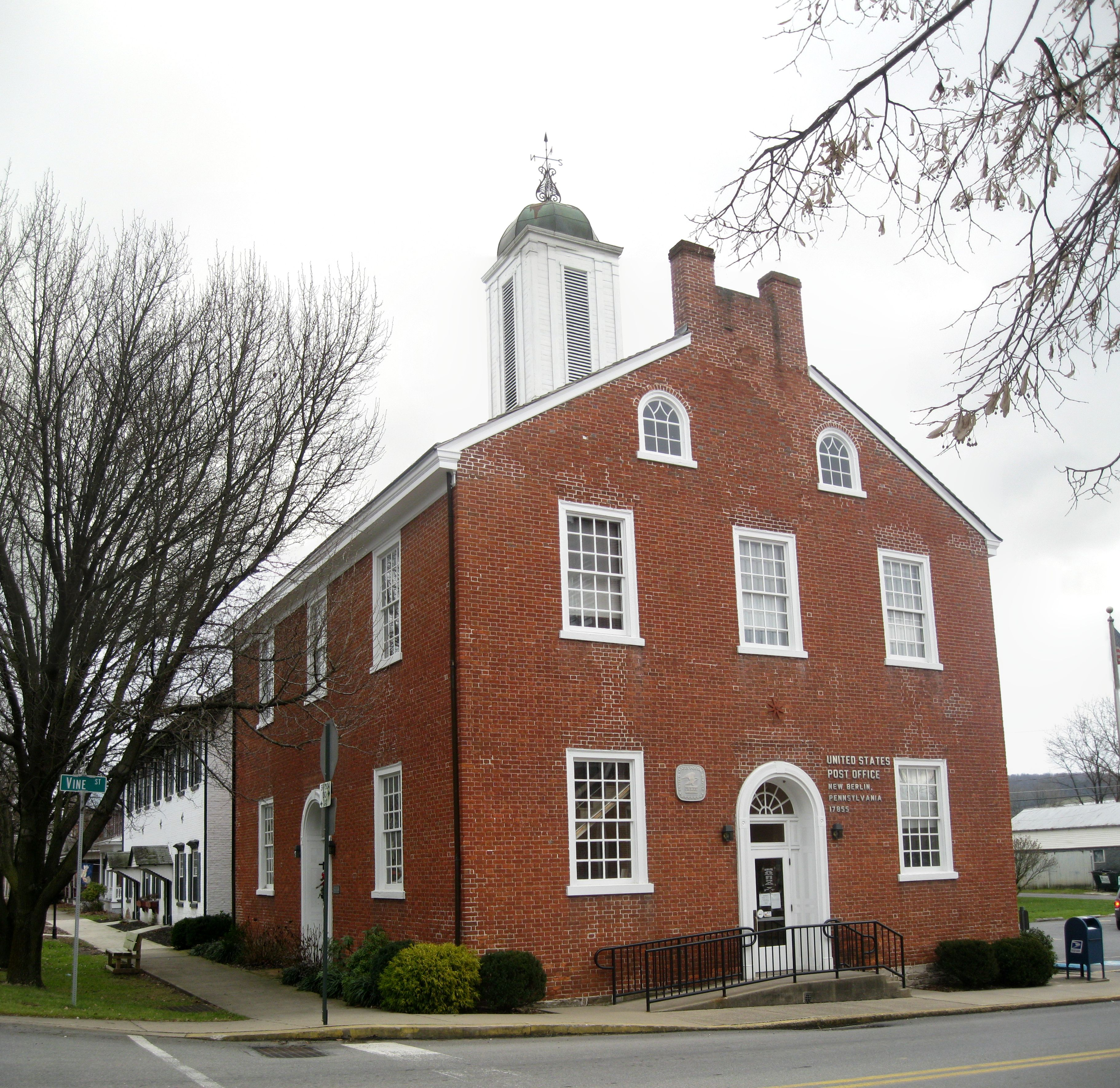 Old Union County Courthouse at Market and Vine Streets in New Berlin, Pennsylvania in the USA. Built 1815, listed on the National Register of Historic Places, it has also served as a school and is now a post office and museum.